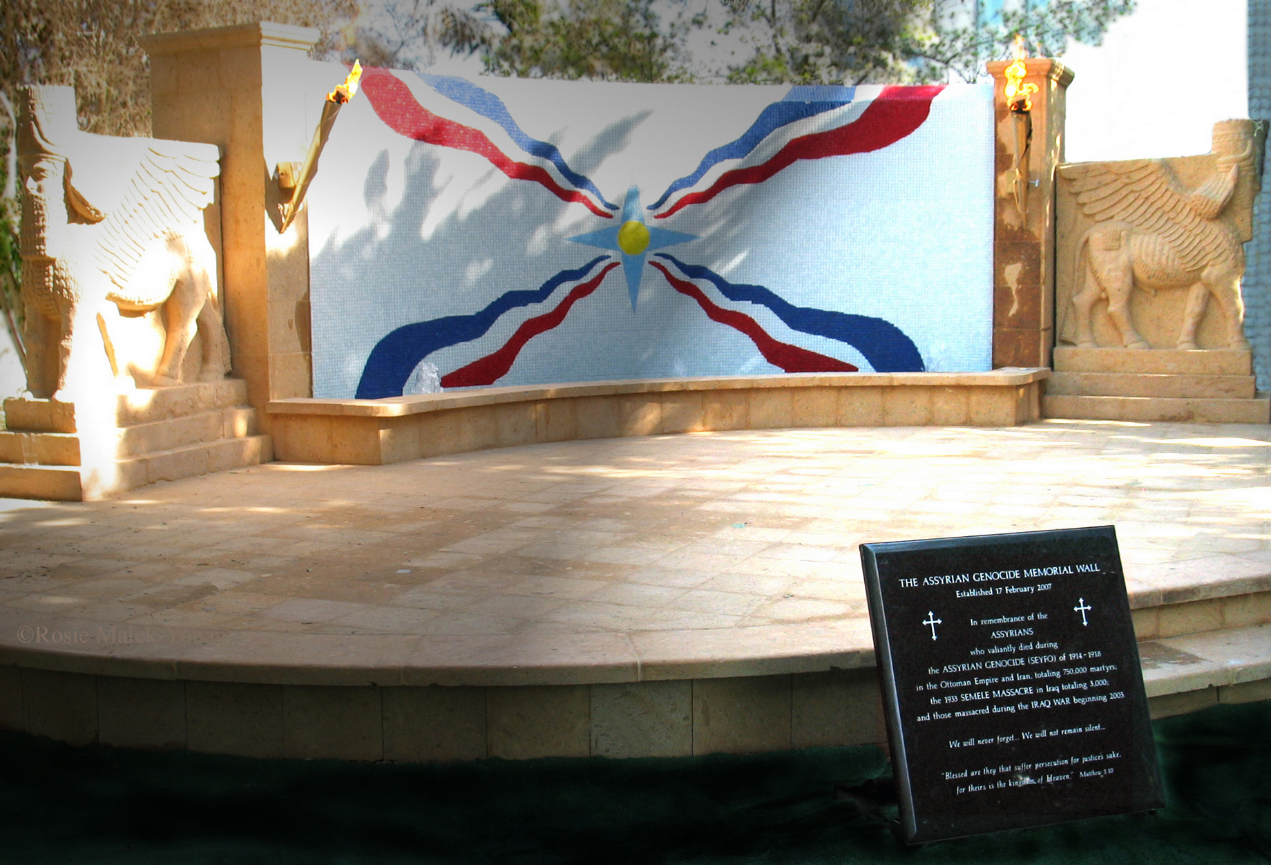 Assyrian Genocide Memorial Wall and Plaque at St. Mary's Parish in Tarzana, in the San Fernando Valley — Los Angeles, California. Copyright — I, Rosie Malek-Yonan, the copyright holder of this work, hereby publish it under the following licenses: Permission is granted to copy, distribute and/or modify this document under the terms of the , Version 1.2 or any later version published by the ; with no Invariant Sections, no Front-Cover Texts, and no Back-Cover Texts. A copy of the license is included in the section entitled .